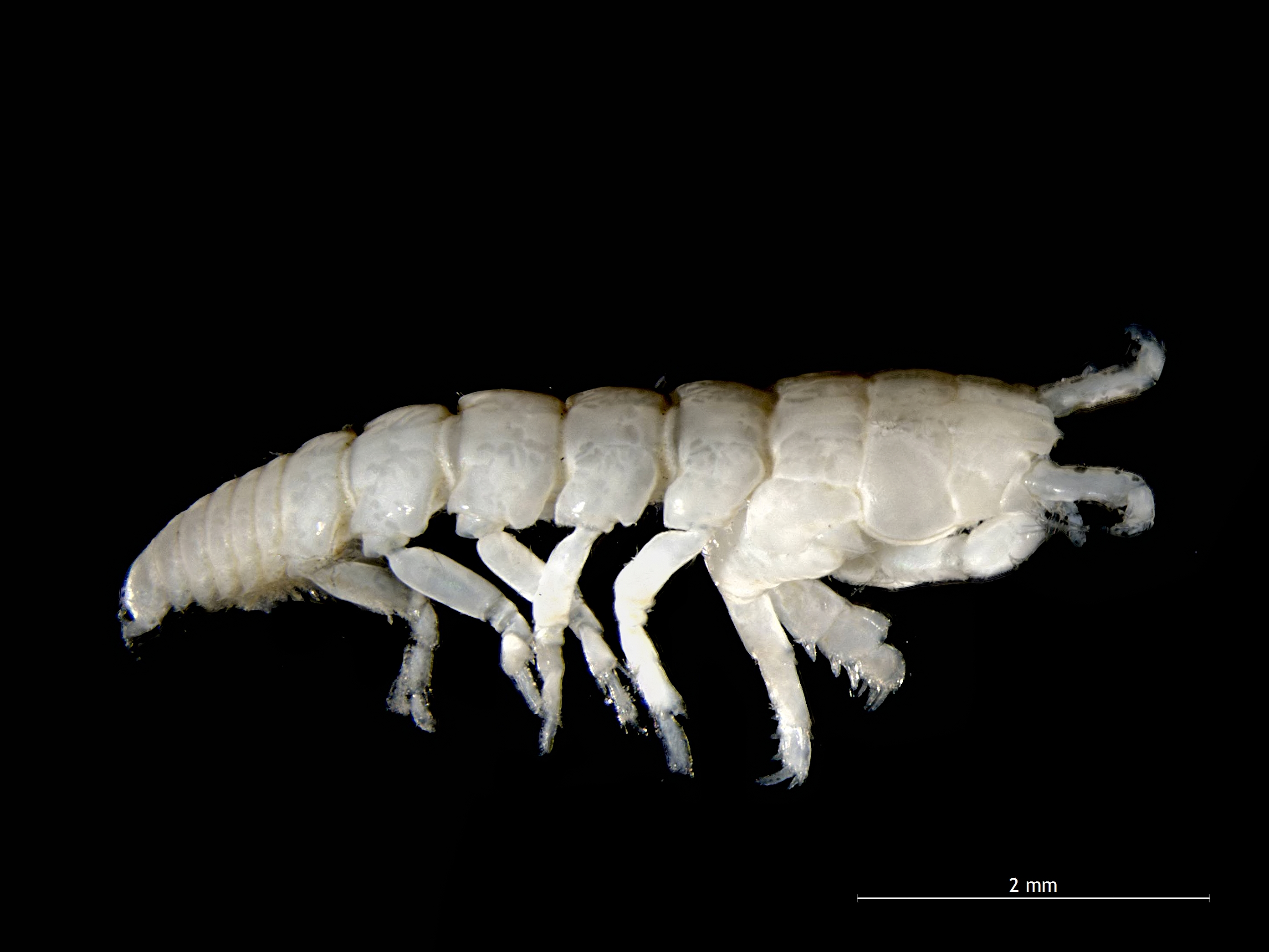 Tanaid taken with Leica camera mounted on a Leica 205 C binocular microscope. This tanaid was sampled near Roscoff, France in 1985.Lab image.